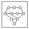 Graphic for Seven Management and Planning Tools